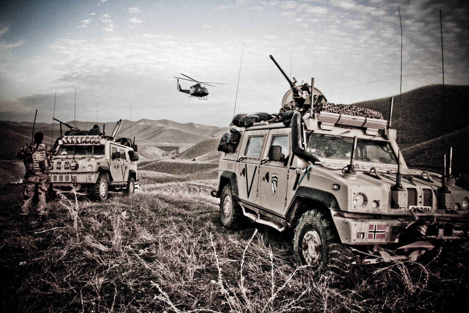 Norwegian Army Iveco LMV in the Faryab province, Afghanistan